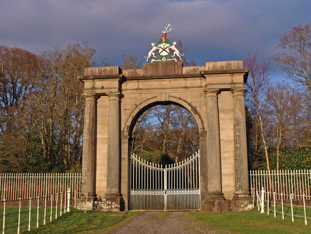 Gates, Rossdhu House This large entrance sits east of the A82 Loch Lomond road. The house is now a golf clubhouse!